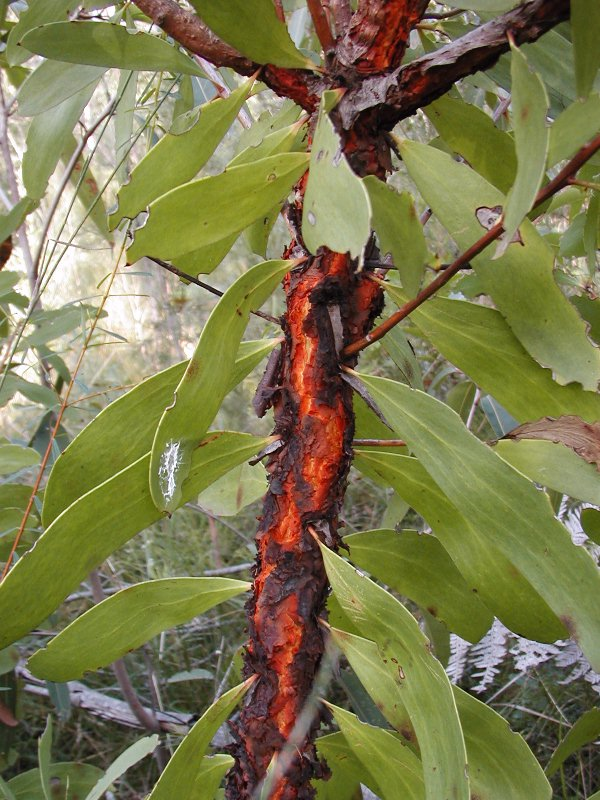 Bark of Persoonia levis, Nowra NSW -photo, Cas Liber